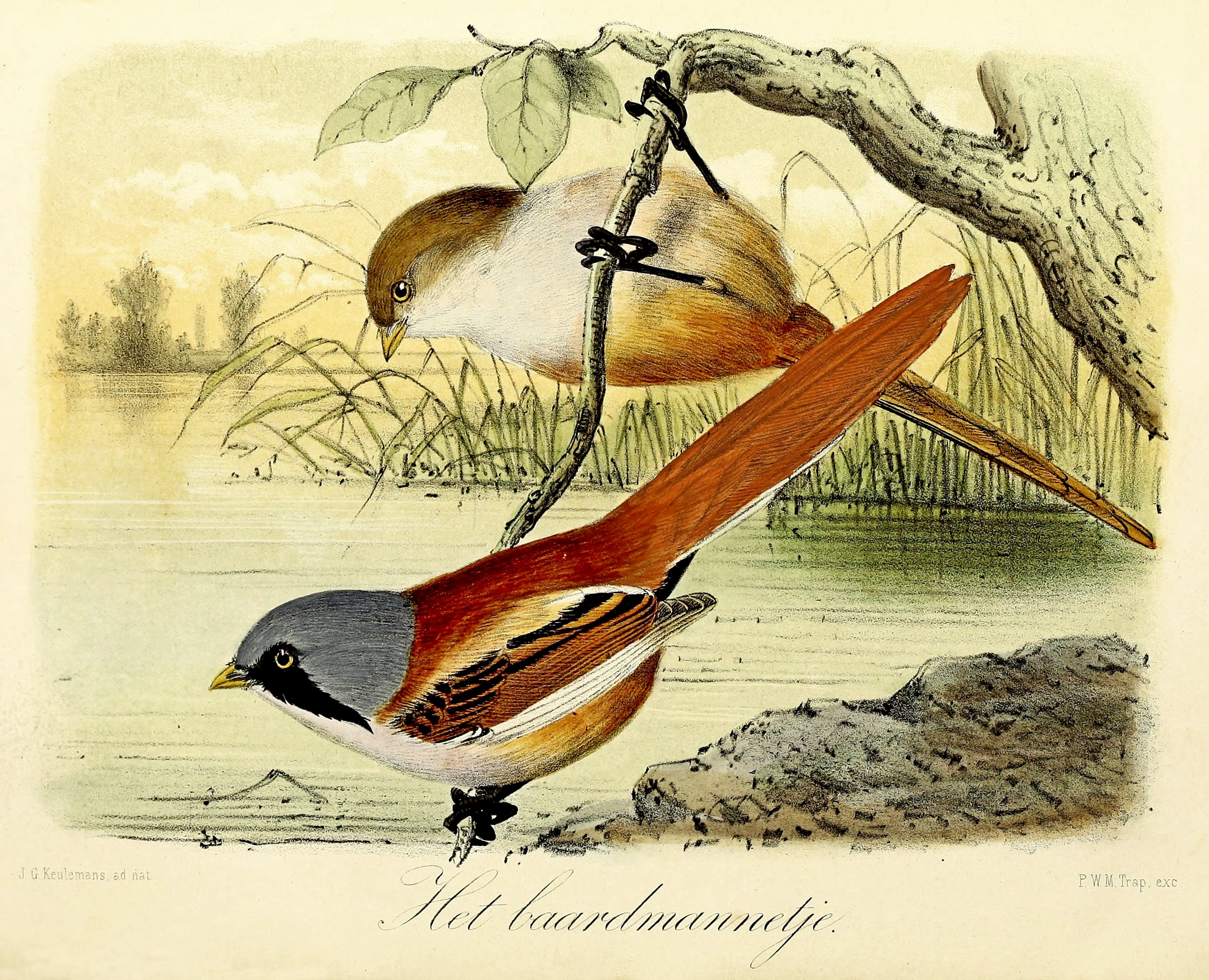 « Parus biarmicus » = Panurus biarmicus (Bearded reedling)